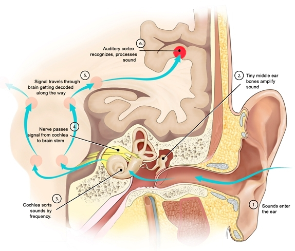 Primary auditory cortex(red circle). from Medial geniculate nucleus to Primary auditory cortex